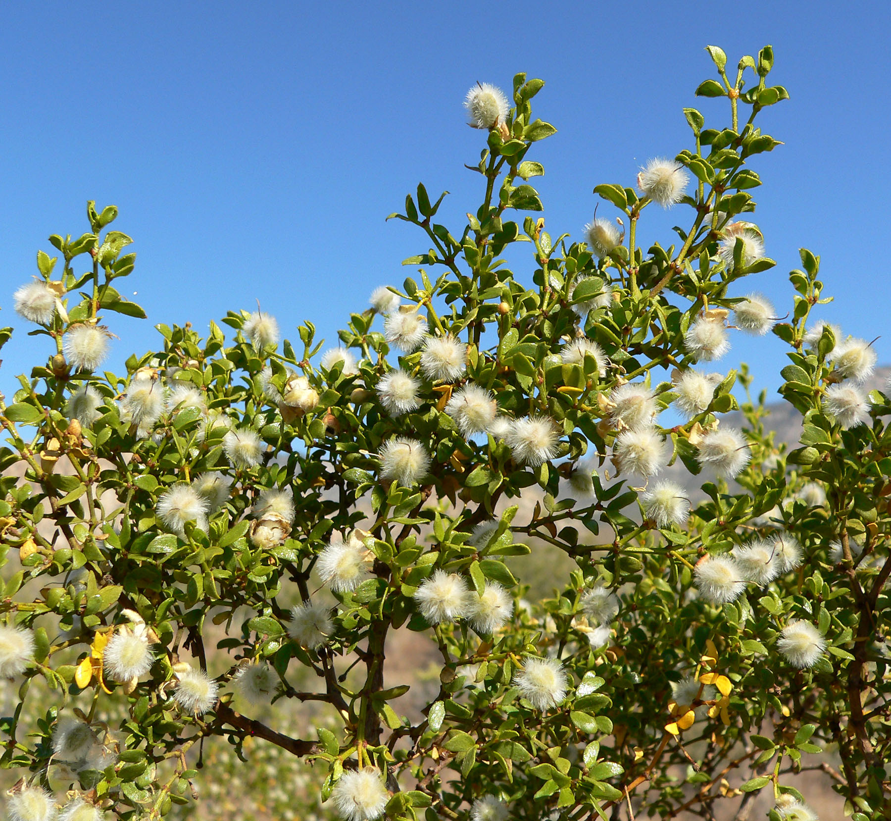 Larrea tridentata in Red Rock Canyon, southern Nevada